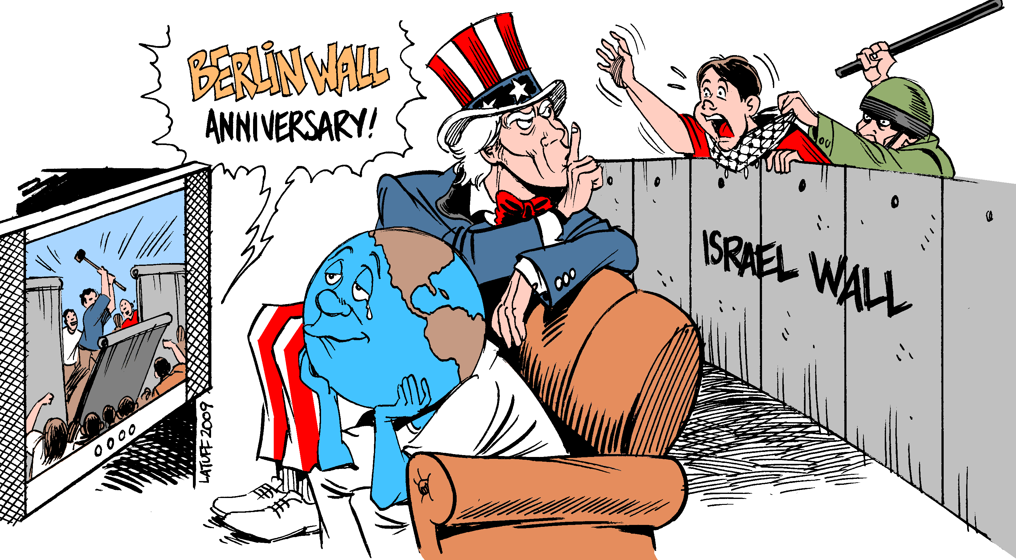 Berlin and Israel walls